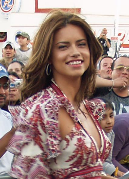 Adriana Lima at the premiere of Spiderman 3 at the 2007 Tribeca Film Festival in Queens, New York.